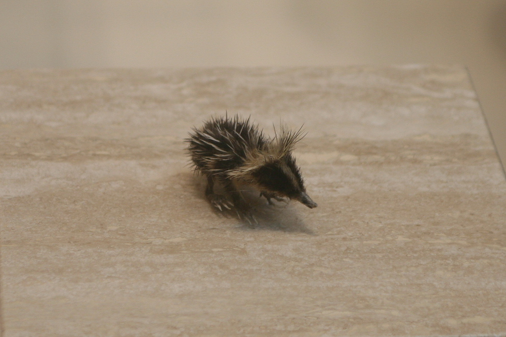 Streaked Tenrec (Hemicentetes semispinosus)